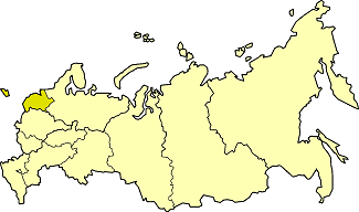 north western economic region based on Image:Economic regions of Russia.png